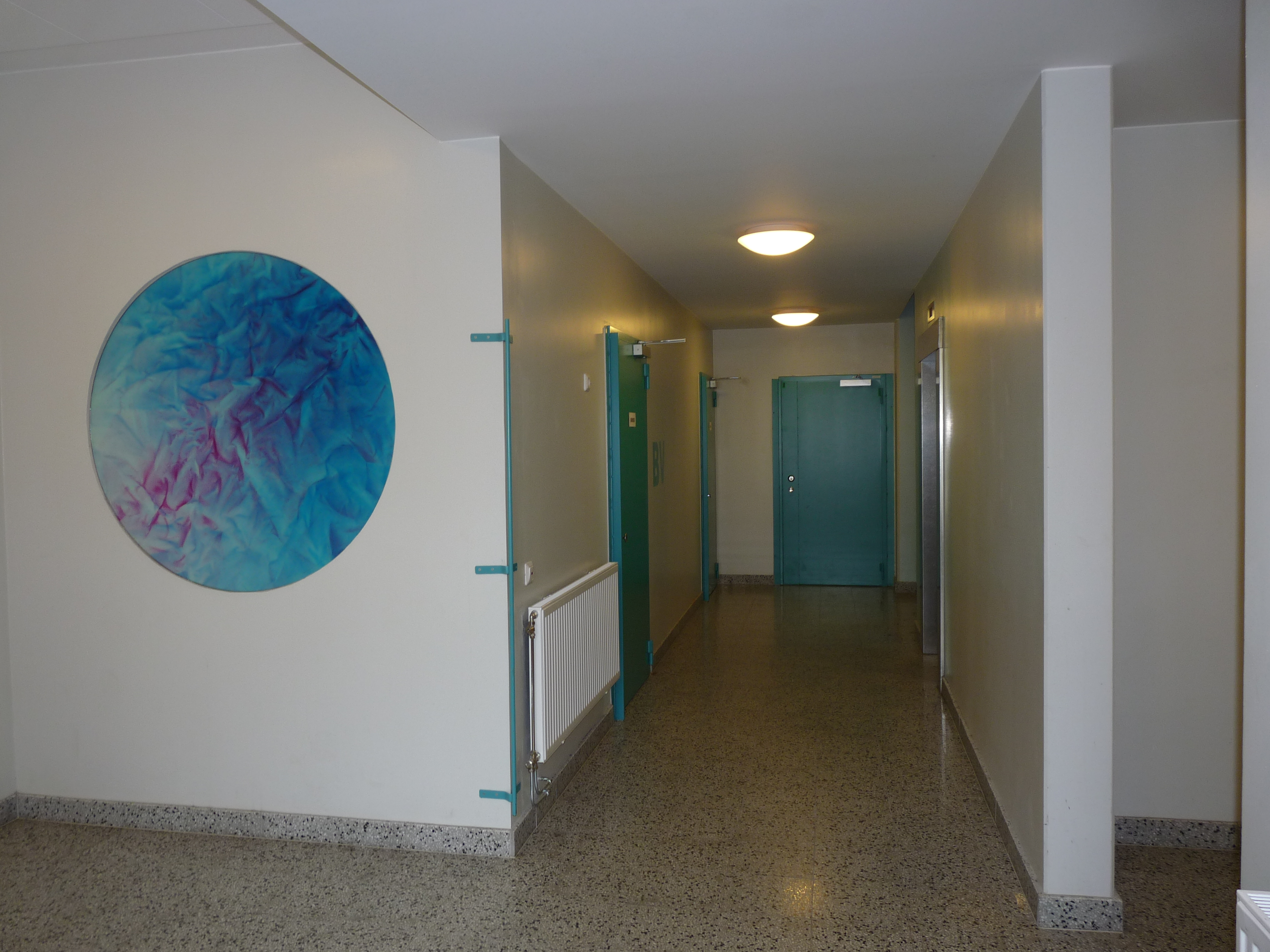 Interior of 1st floor in swedish apartment block